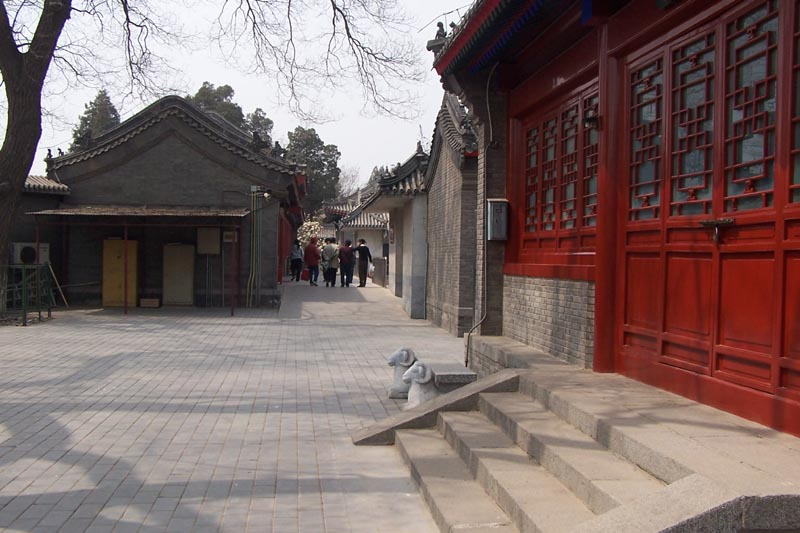 The Urn Hall of Babaoshan Revolutionary Cemetery 中文（台灣）: 八寶山革命公墓骨灰堂